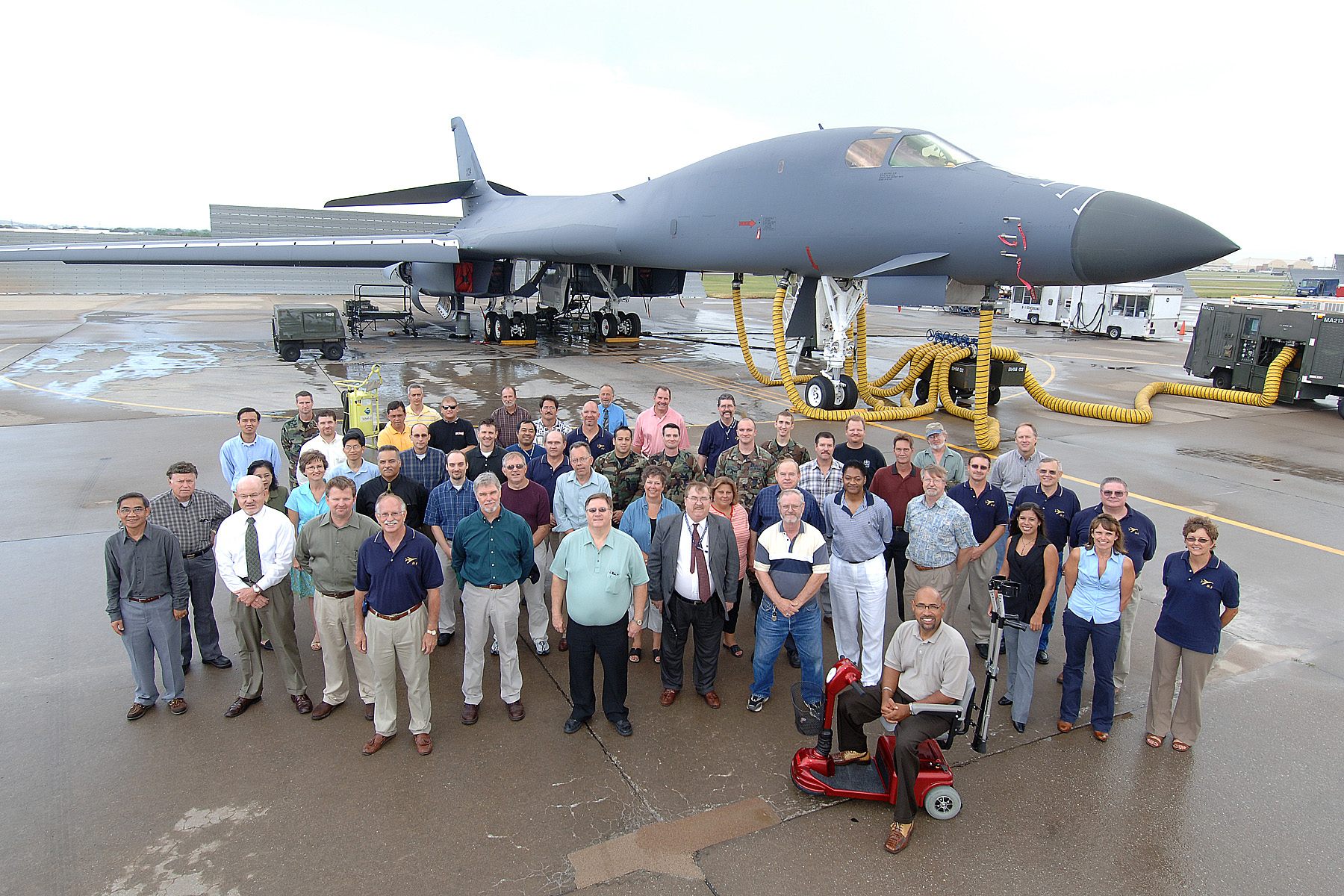 Personnel of the 327th Aircraft Sustainment Wing of the United States Air Force